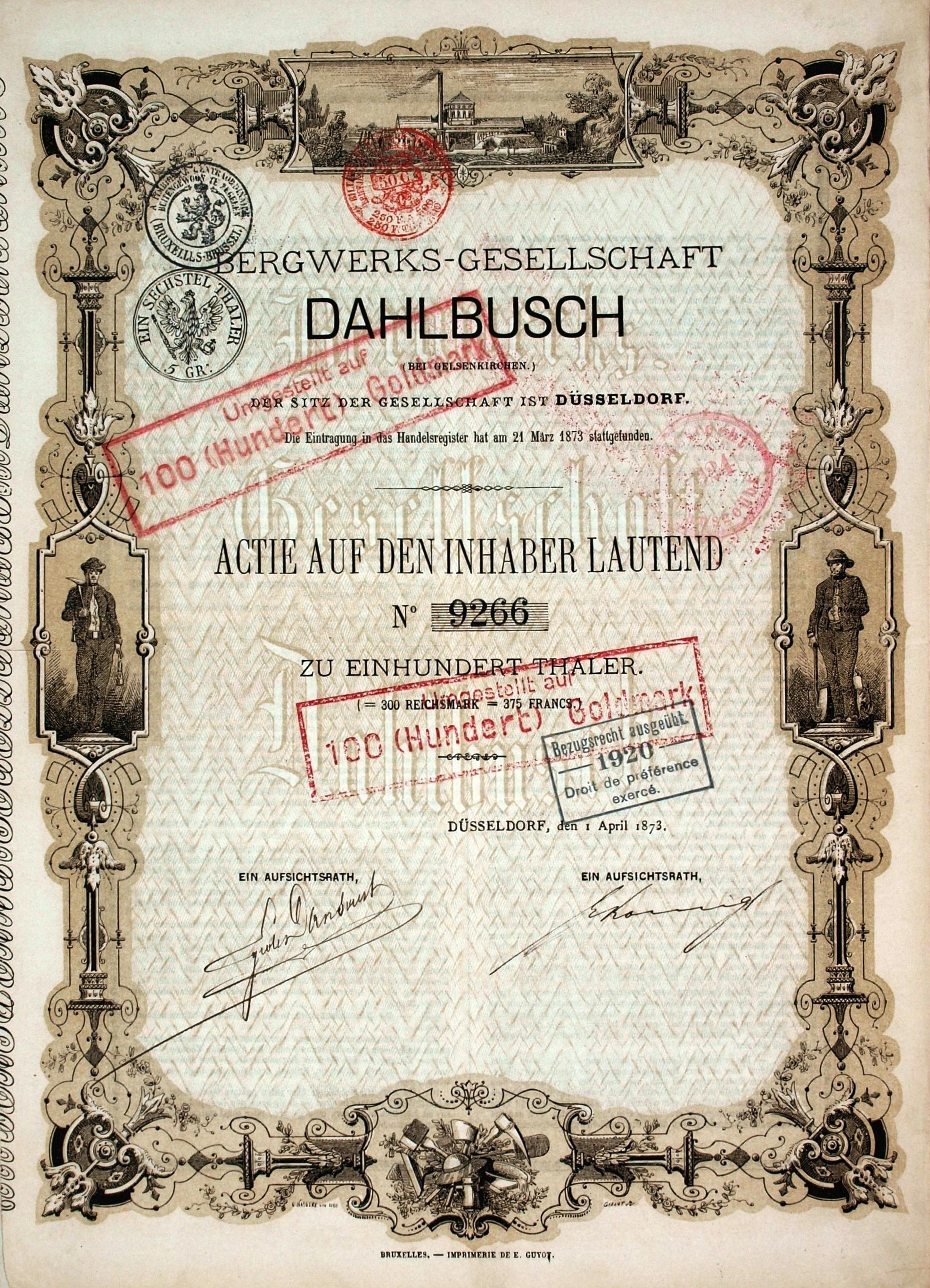 Share of the Bergwerks-Gesellschaft Dahlbusch, issued 1. April 1873; reverse side shows the share in french